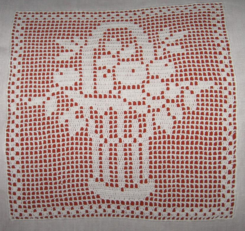 fulet